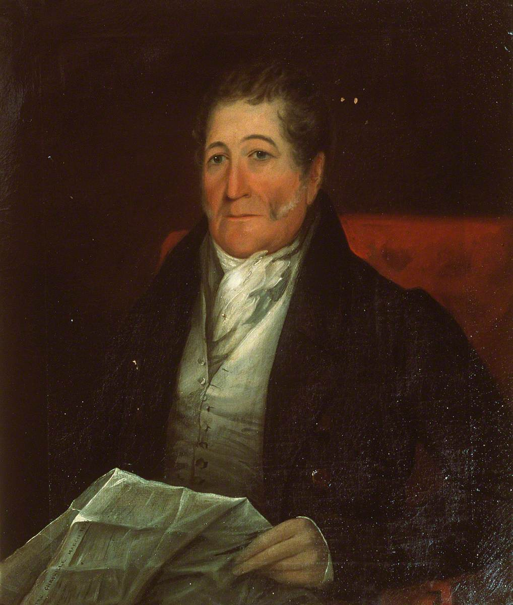 A painting from the Framed Works of Art collection at the National Library of wales.